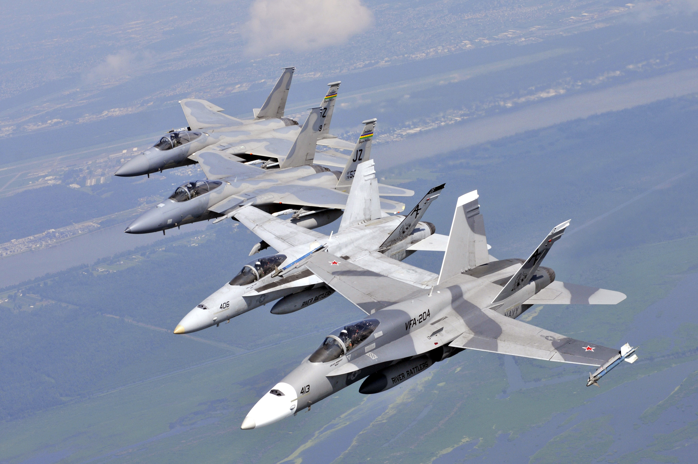 NEW ORLEANS (July 11, 2009) Two F/A-18C Hornets assigned to Strike Fighter Squadron (VFA) 204 and two F-15C Eagles assigned to the Louisiana Air National Guard 159th Fighter Wing fly in an echelon formation over southern Louisiana wetlands during a photo exercise. VFA 204 and the 159th are stationed on Naval Air Station Joint Reserve Base (NAS JRB) New Orleans. (U.S. Navy photo by Mass Communication Specialist 2nd Class John P. Curtis/Released)